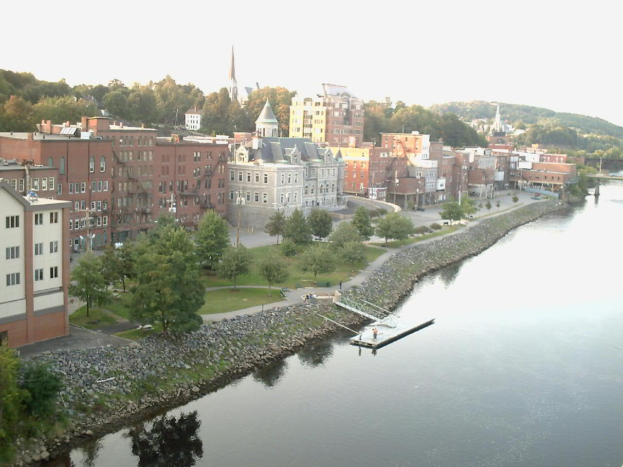 Augusta, Maine — from the bridge